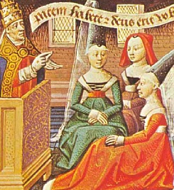 Bertrade of Monfort, Queen consort of Philip I of France.Miroir historial de Vincent de Beauvais